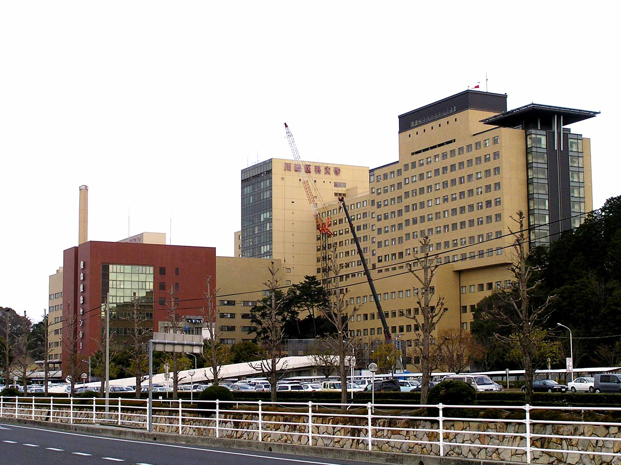 Kawasaki Medical School hospital